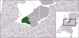 Location of Almere